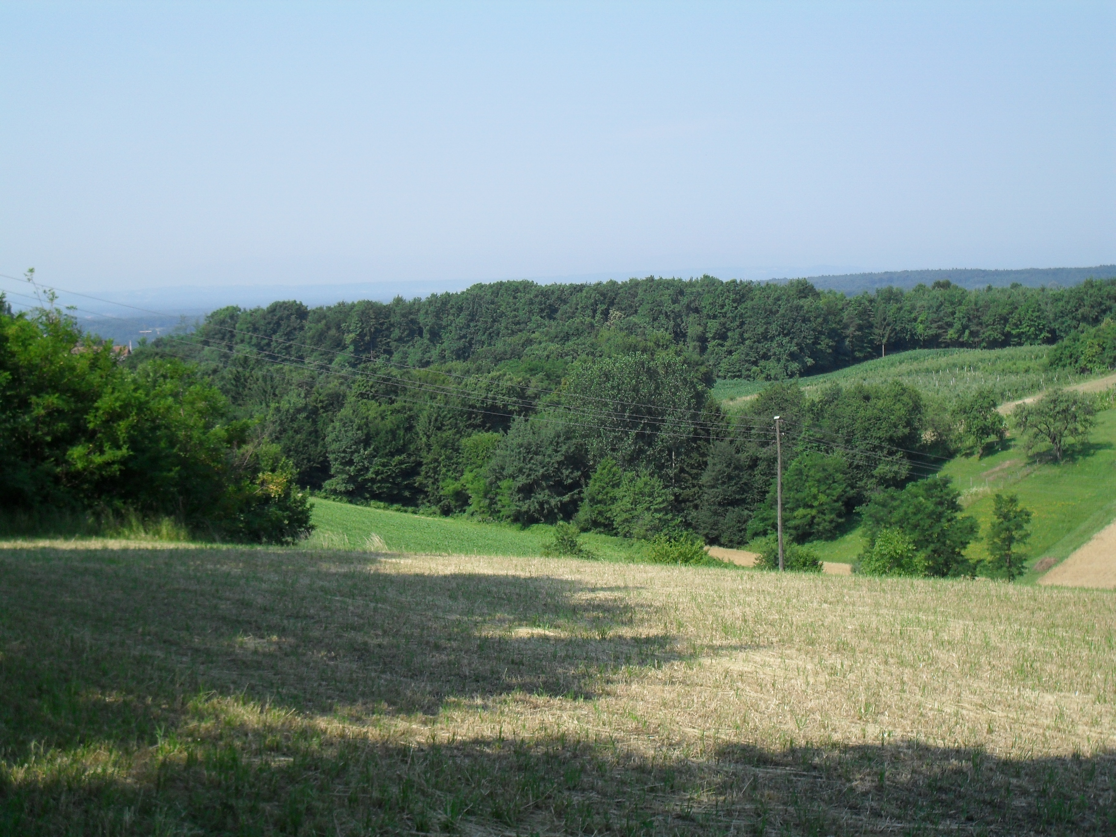 Stubble in Vadarci, Puconci municipality, Prekmurje